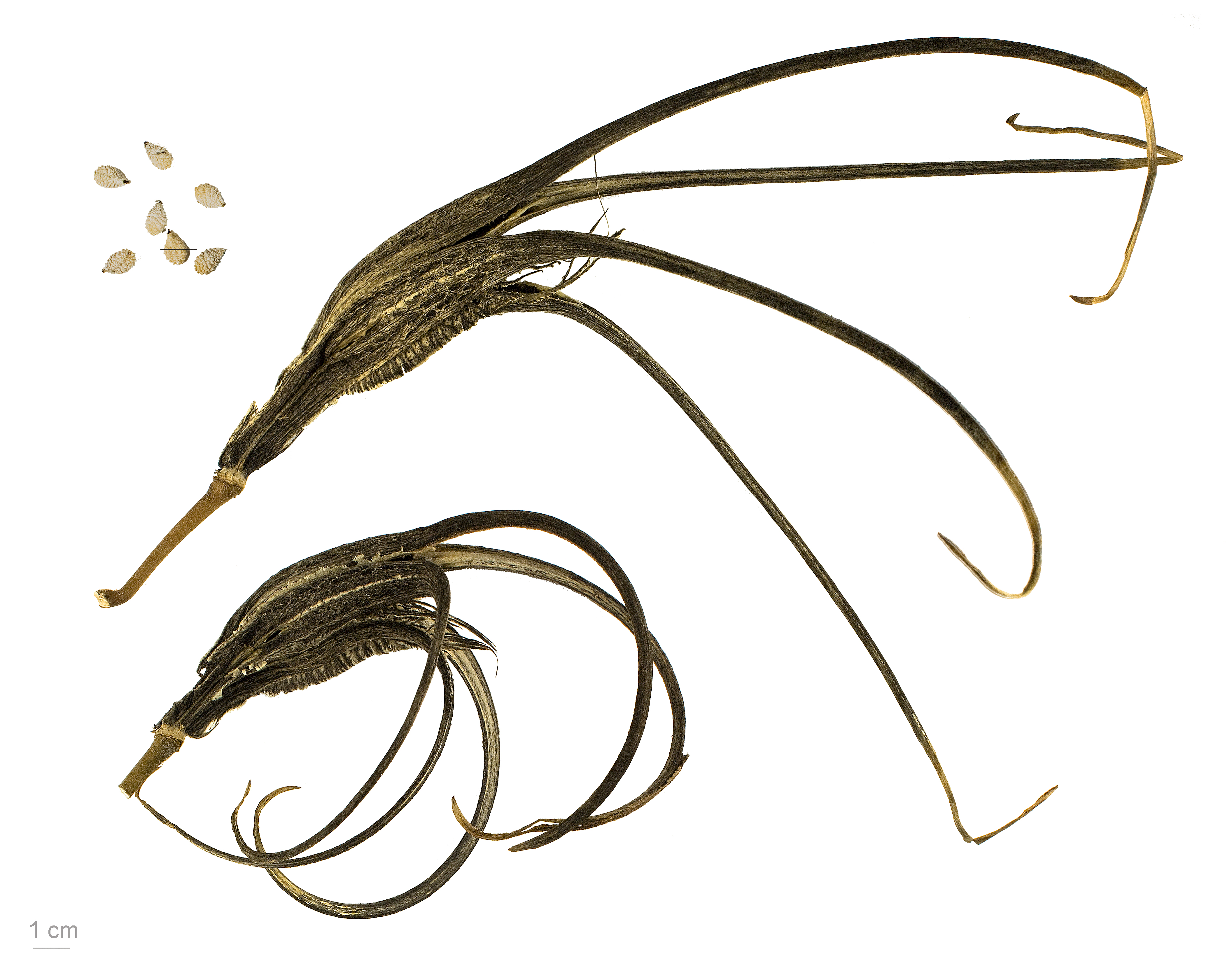 doubleclaw, red devil's-claw, fruits and seeds